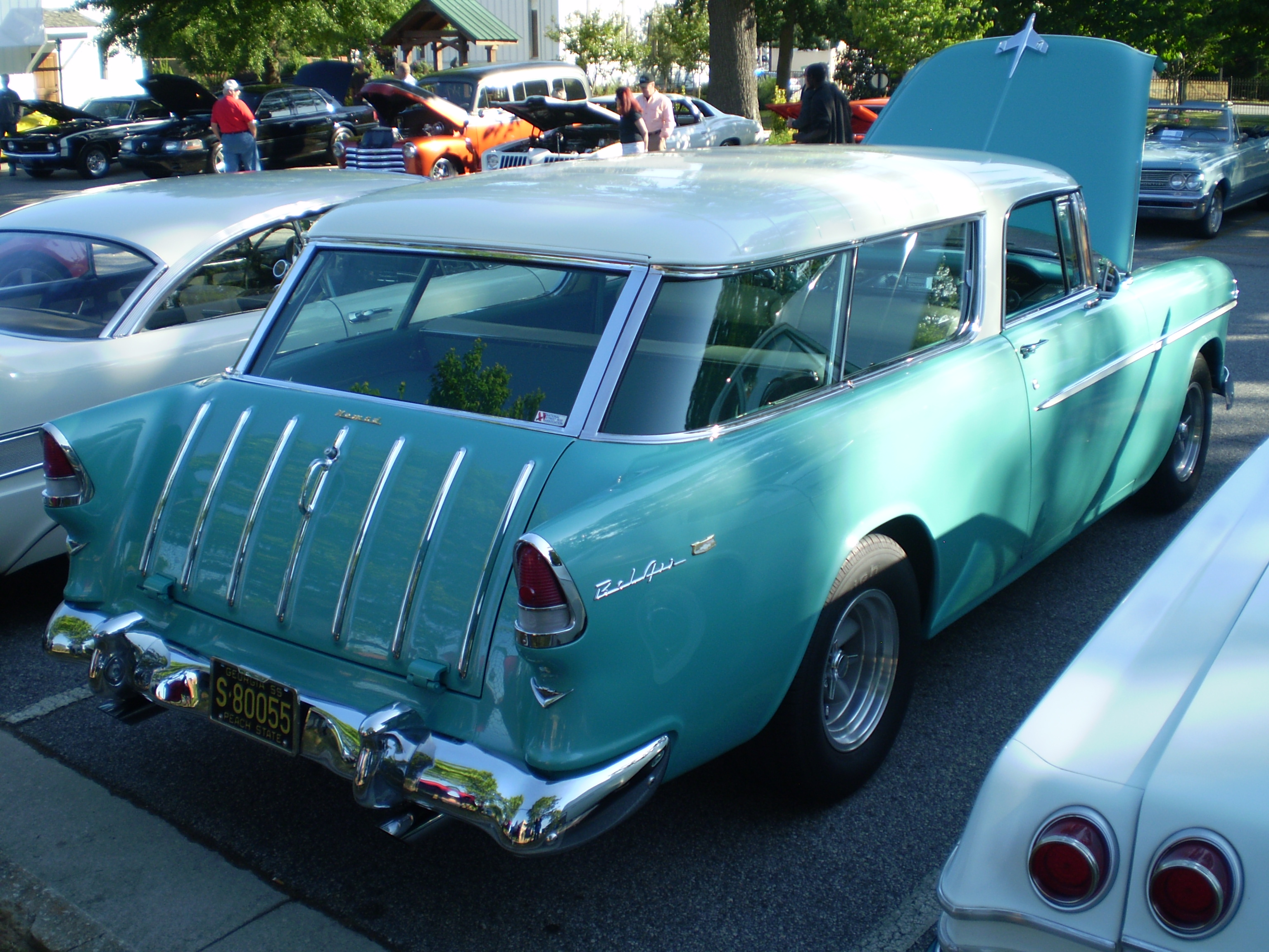 1955 Chevrolet Bel Air Nomad (Reverse).